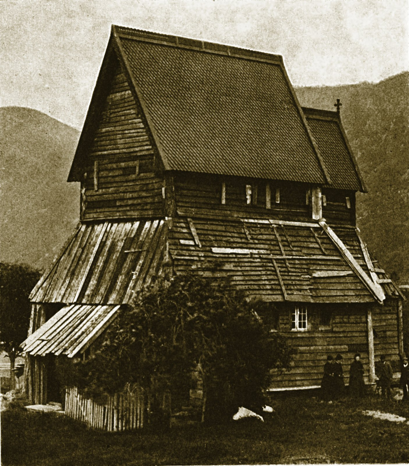 Photo during restauration work in 1885